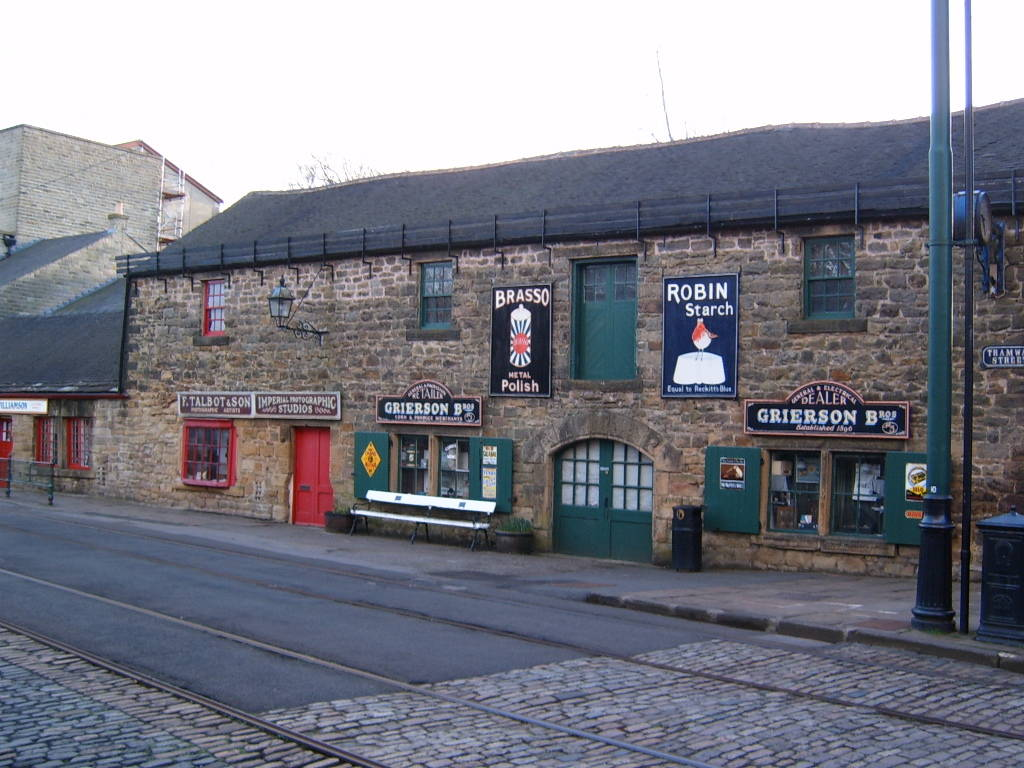 Stephenson's historic Stone Workshop at Crich Tramway Village, originally used as a smithy and wagon works for George Stephenson’s one metre gauge mineral railway, and now home to the George Stephenson Discovery and Learning Centre.